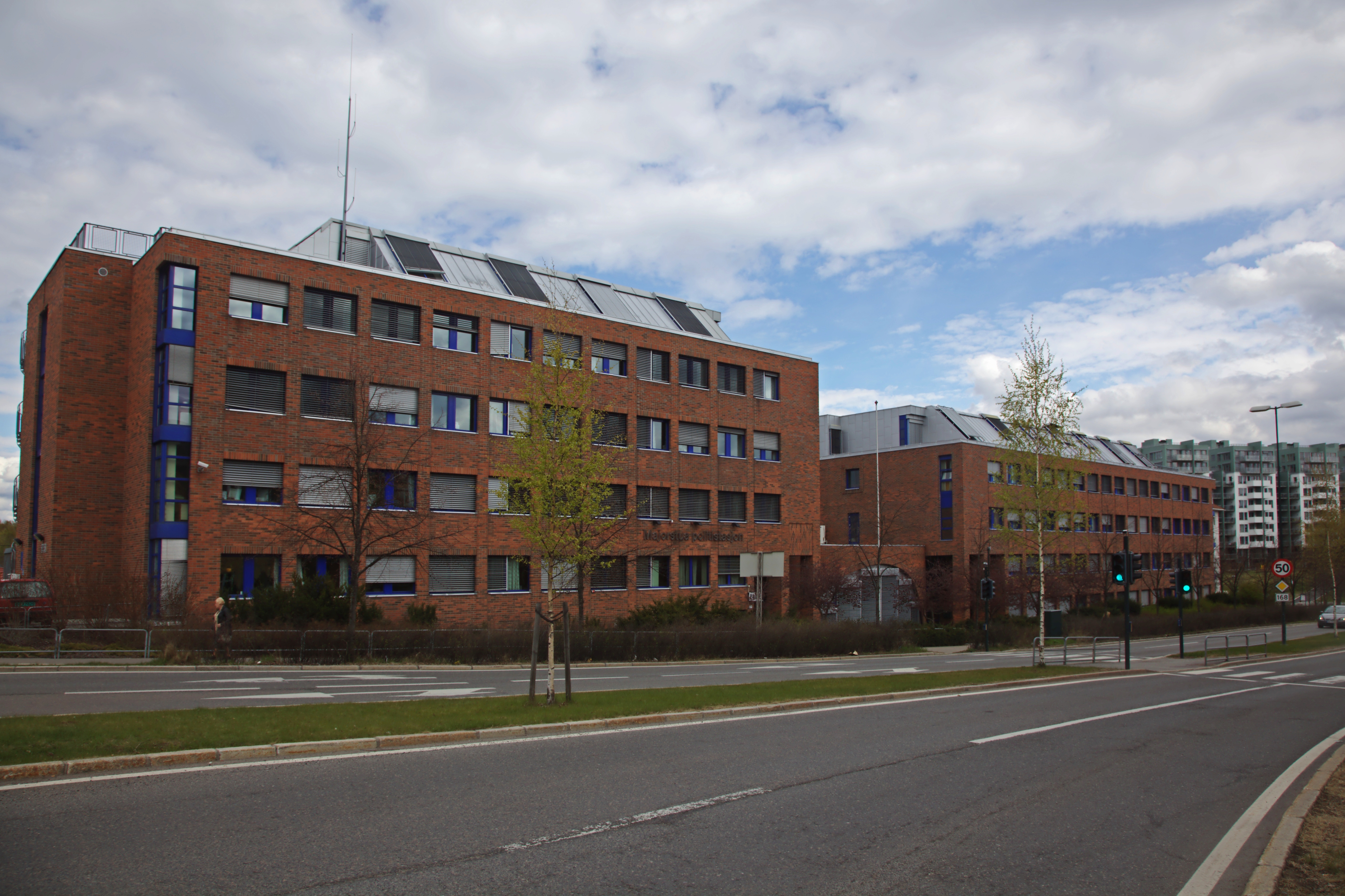 Police station at Majorstua, Oslo